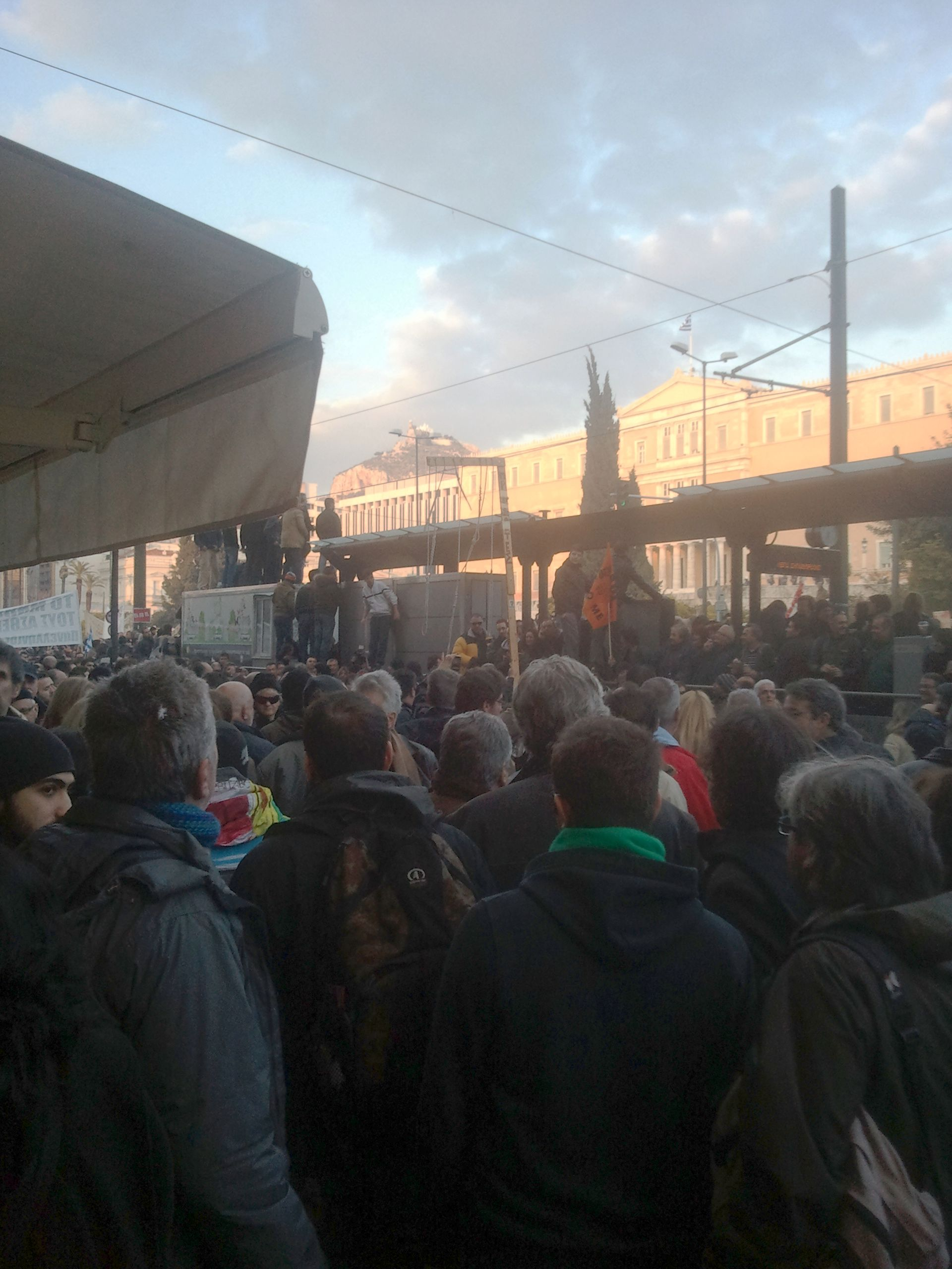 Just before riot police fire lacrymogen gaz grenades in an about 60,000 people (after police source) pacific crowd, Sunday february 12, around 17:36, in front of parlment, on Syntagma place, in Athena, Greece, few hours before Mordorandum II voting.